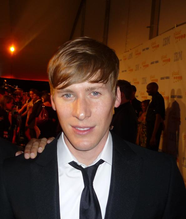 Screenwriter Dustin Lance Black at 2009 GLAAD Media Awards - Opening Night of Bacharach and David at The Music Box @ Fonda, Los Angeles.